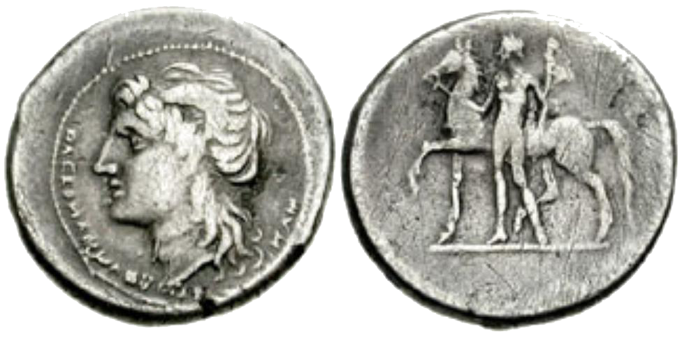 Campania, Nuceria Alfaterna. Circa 250-225 BC. AR Nomos (7.06 gm). Head of Karneios left, wearing horn of Ammon Dioskouros standing left beside horse, holding reins and sceptre. SNG France 1099; SNG ANS 560 var. (dolphin on obverse); HN Italy 608. Near VF, lightly toned, numerous cleaning scratches. Rare.